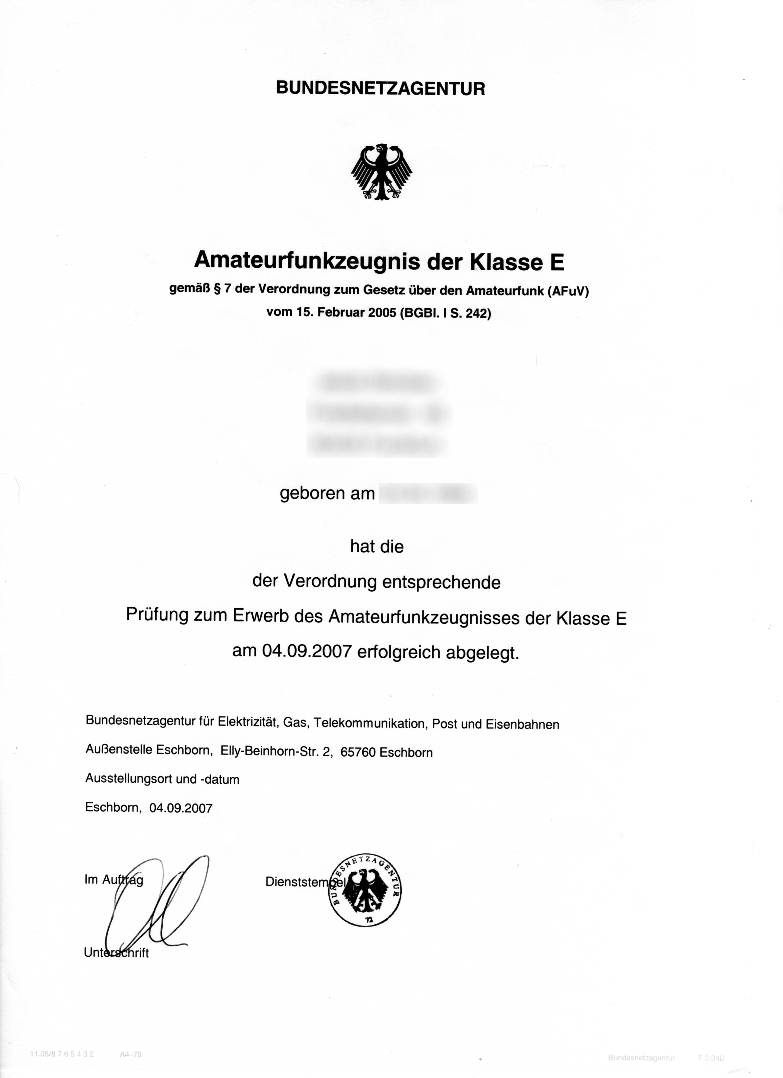 Amateur radio operator certification for german class E-licence.